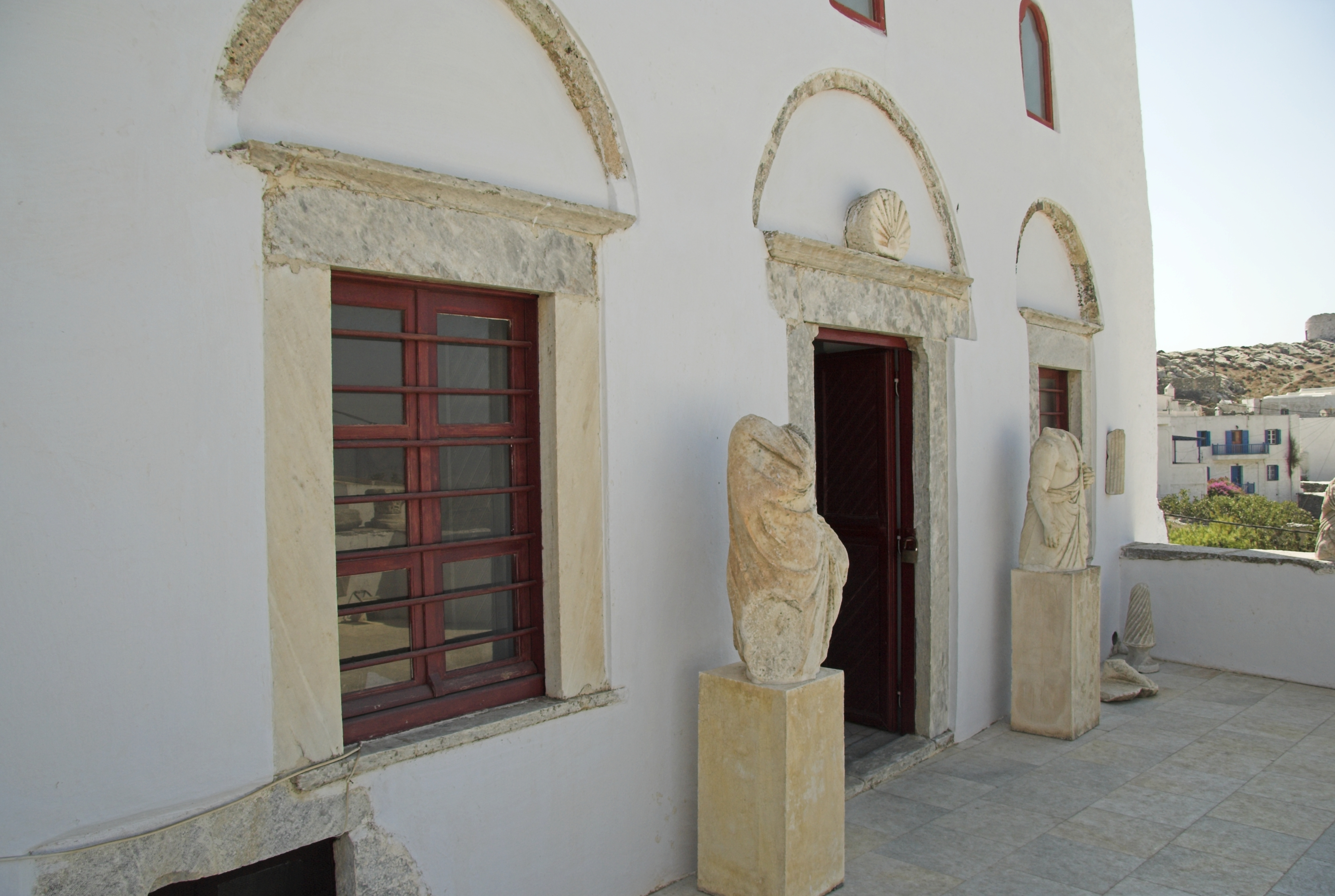 Roman statues at the entrance to the Archaeological Collection of Amorgos.